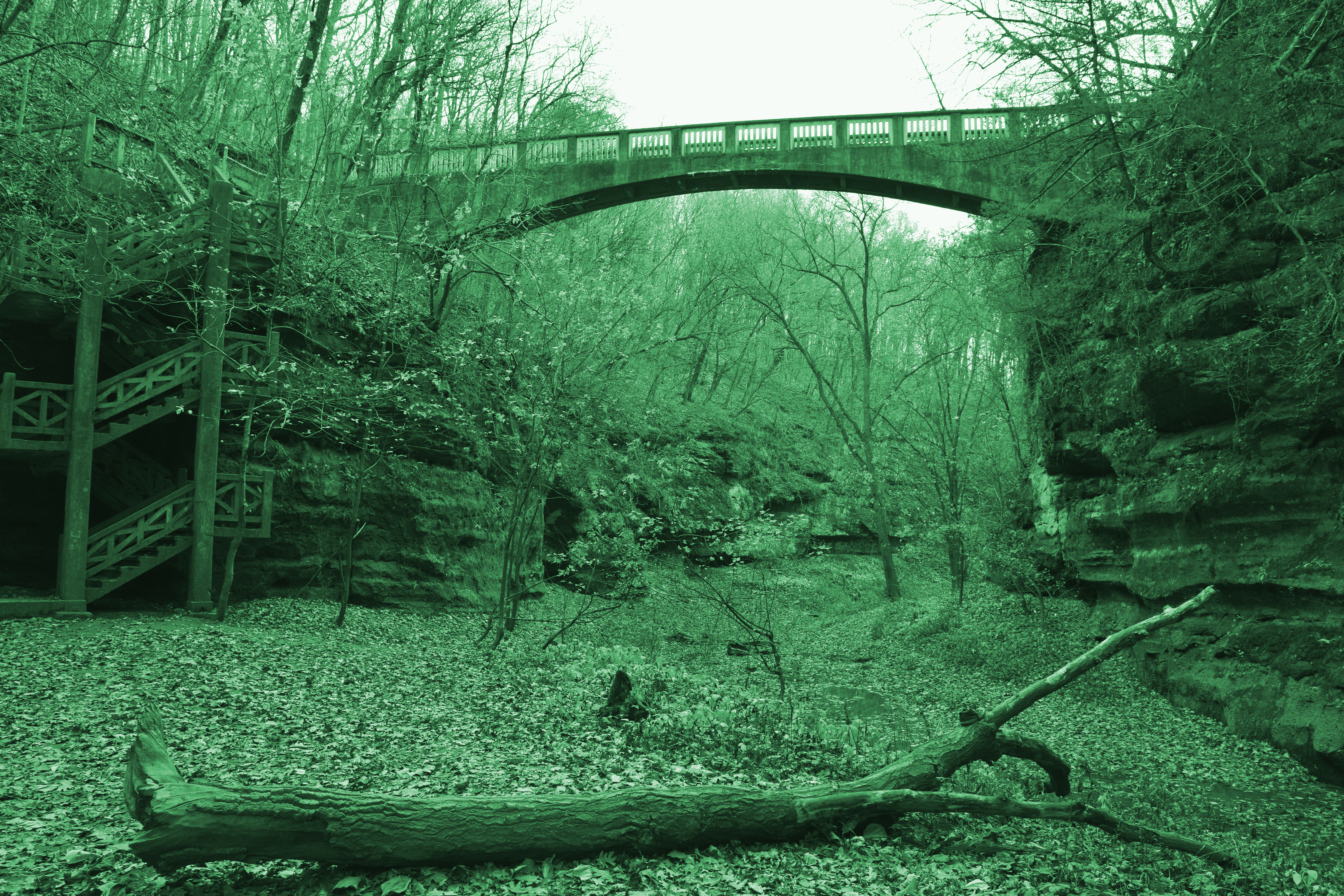 Autumn view of footbridge at Mattiessen State Park